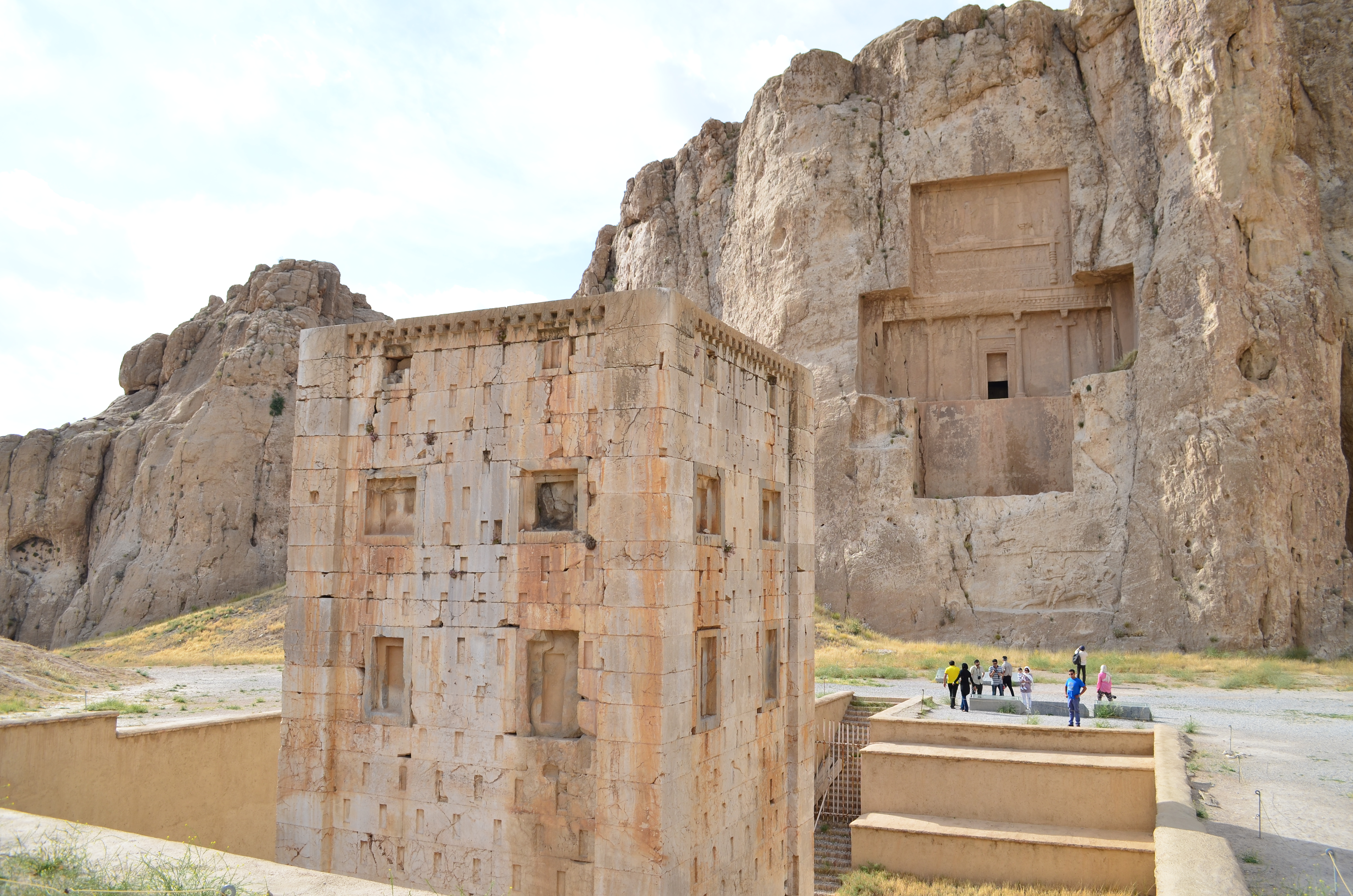 Ka'ba-ye Zartosht